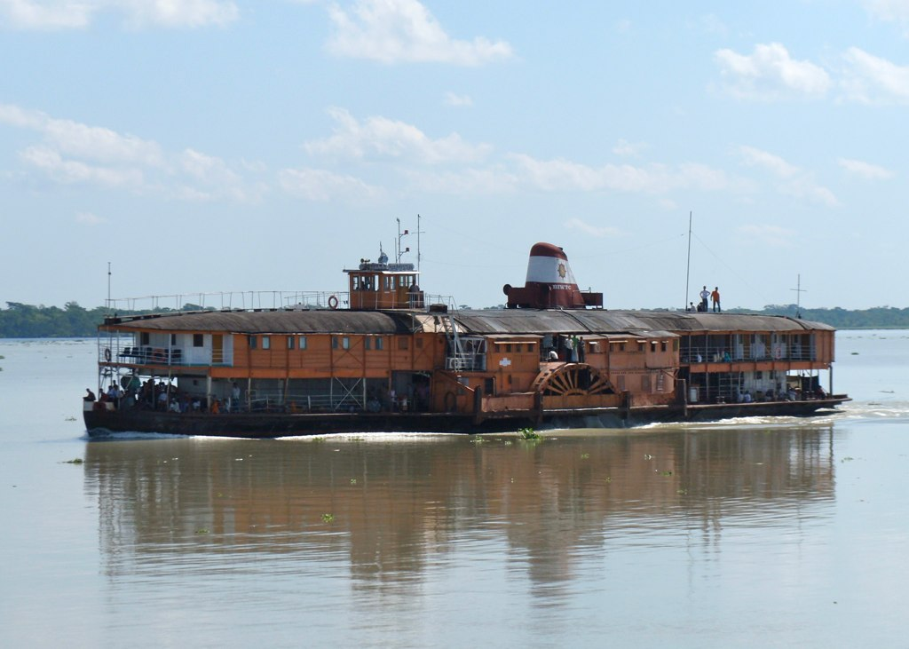 Rocket Boat on the river, somewhere between Barisal and Mongla, Bangladesh